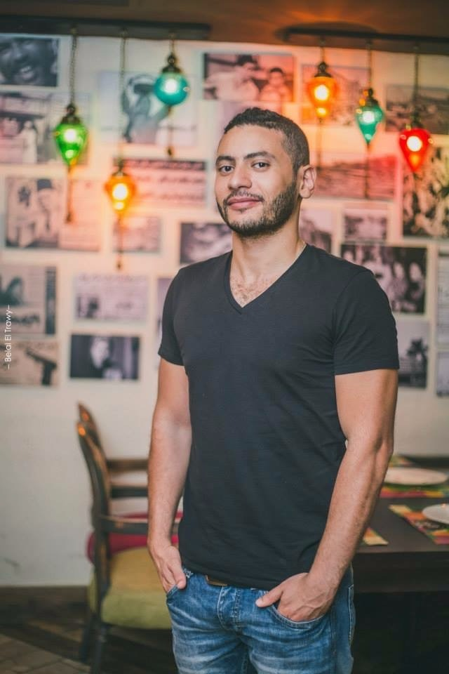 Mohamed Salama photo